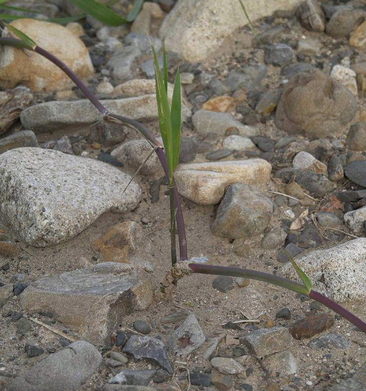 Phragmites japonica(Poaceae) Japanese name:Turuyosi：ツルヨシ Date;2009,10.11;Tanabe City, Wakayama prefecture, Japan Author;Keisotyo